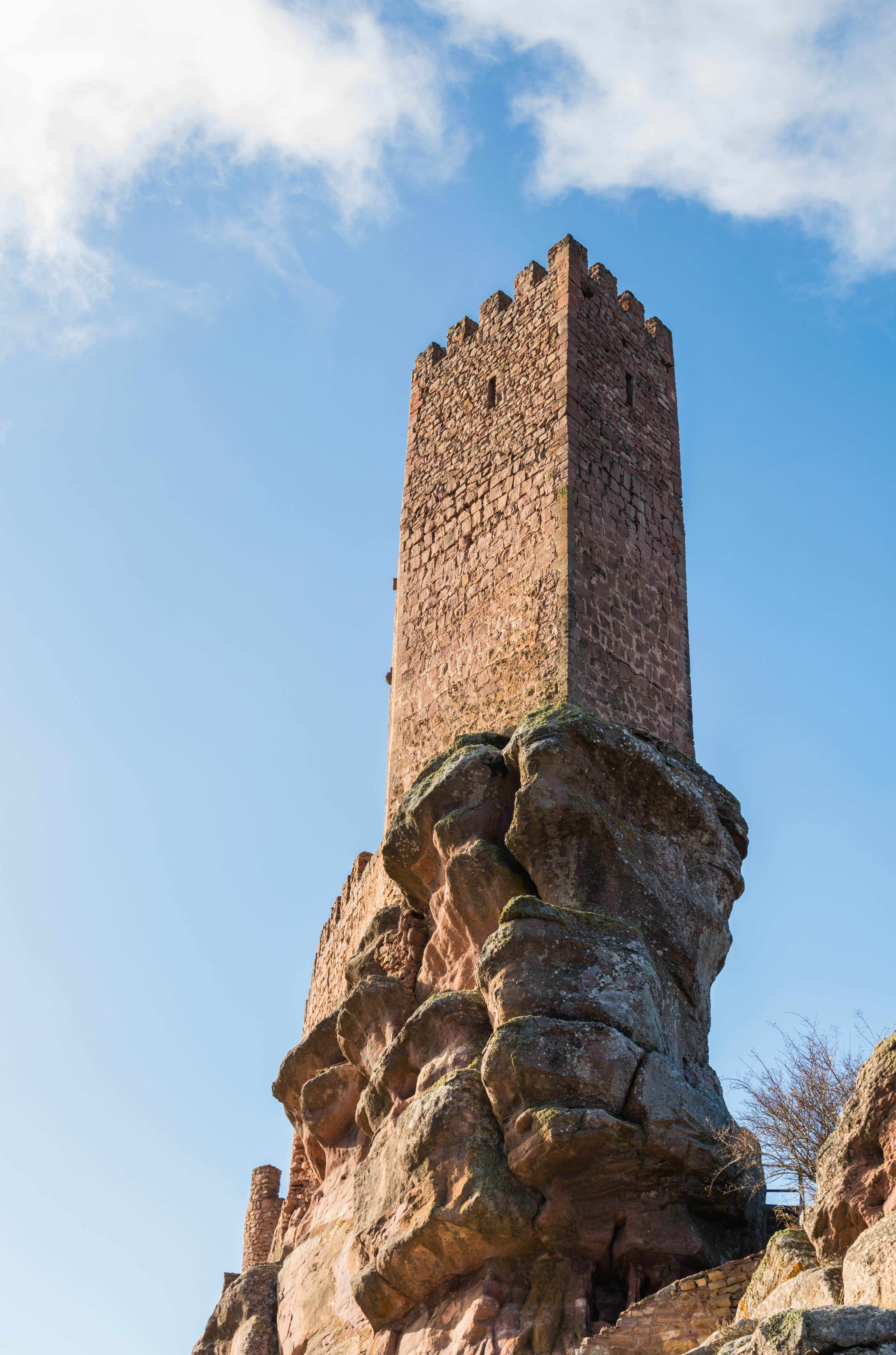 Castle of Zafra, Campillo de Dueñas, Guadalajara, Spain